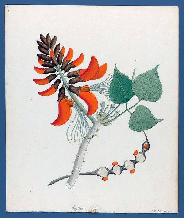 Botanical illustration of Erythrina caffra Thunb.